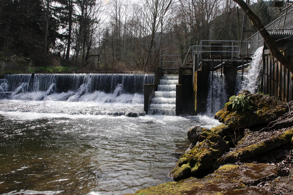 The upper dam on Issaquah Creek, near the old coal mine mitigation.